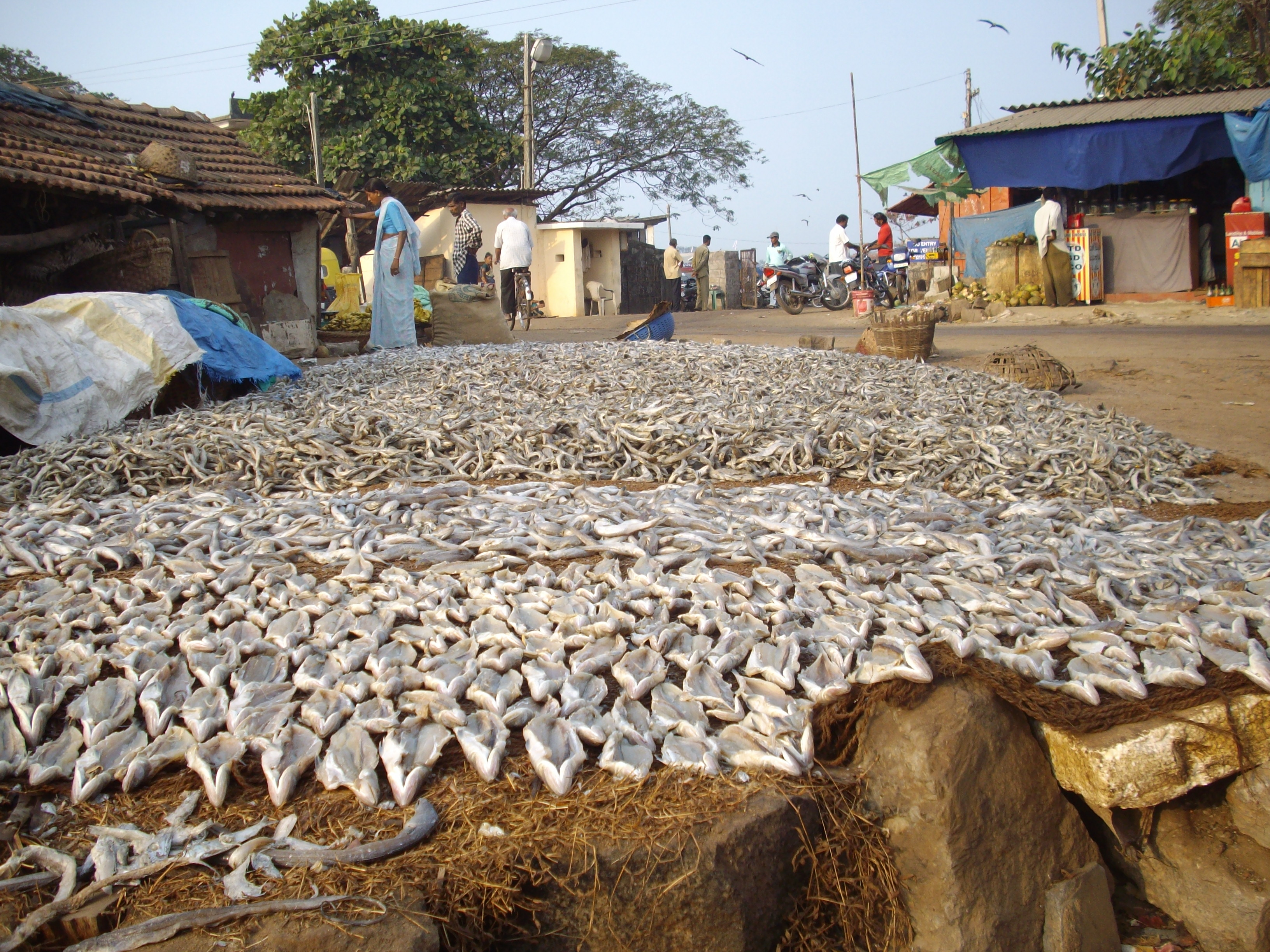 "Malpe Fishing Port"- Drying of salted fish outside the port harbour.